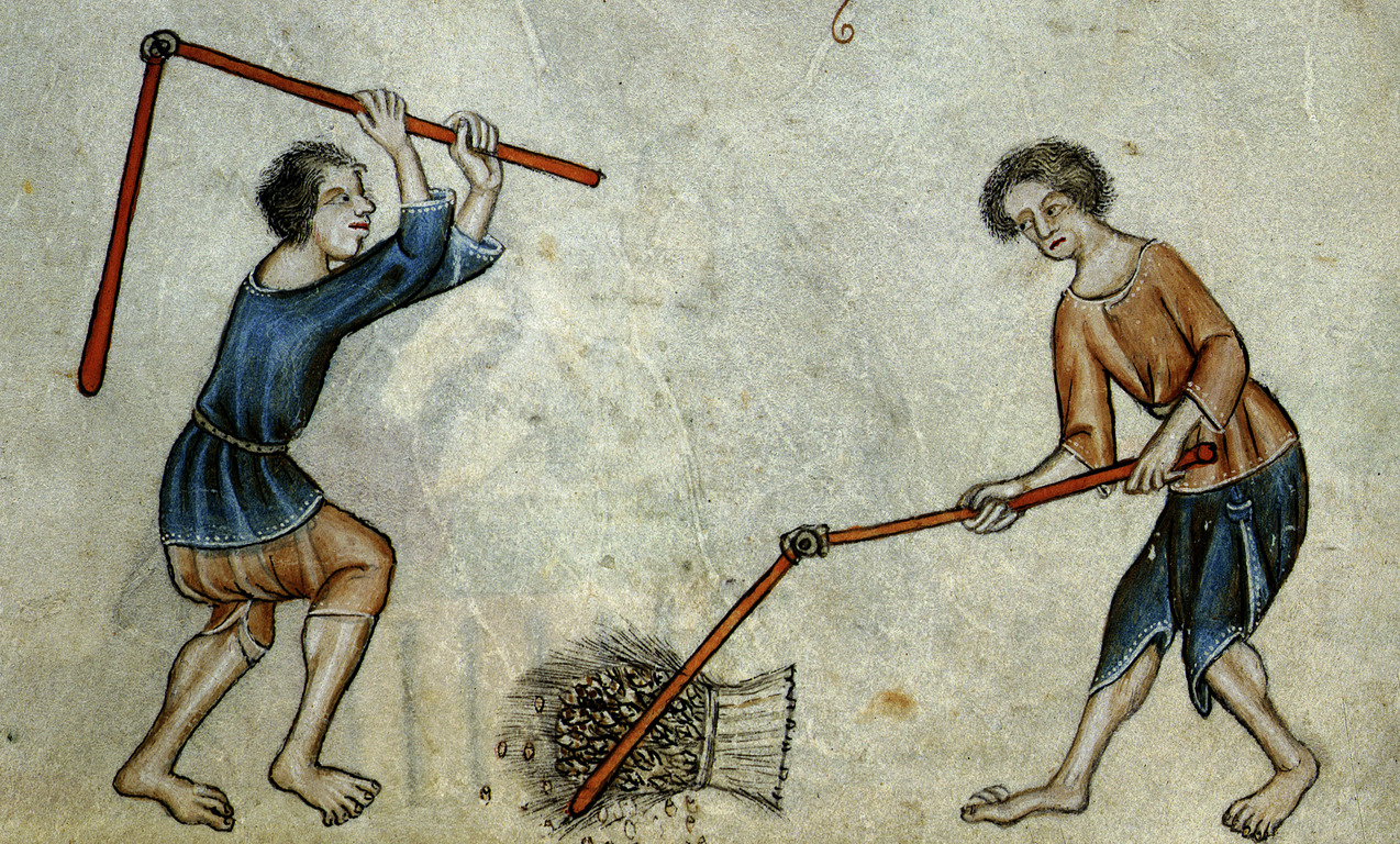 Two men threshing sheaf [Lower margin] Marginal drawing of two men threshing a bound sheaf with flails